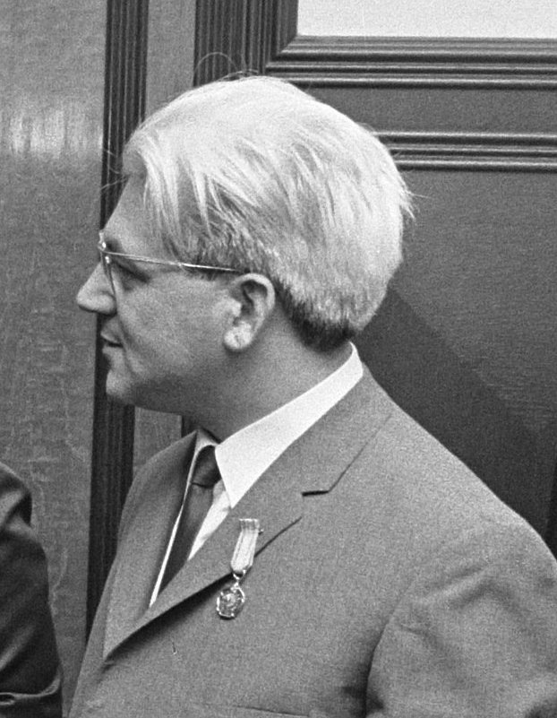 Dutch astronomer-writer Hans de Rijk / Bruno Erich / Broeder Erich in 1966